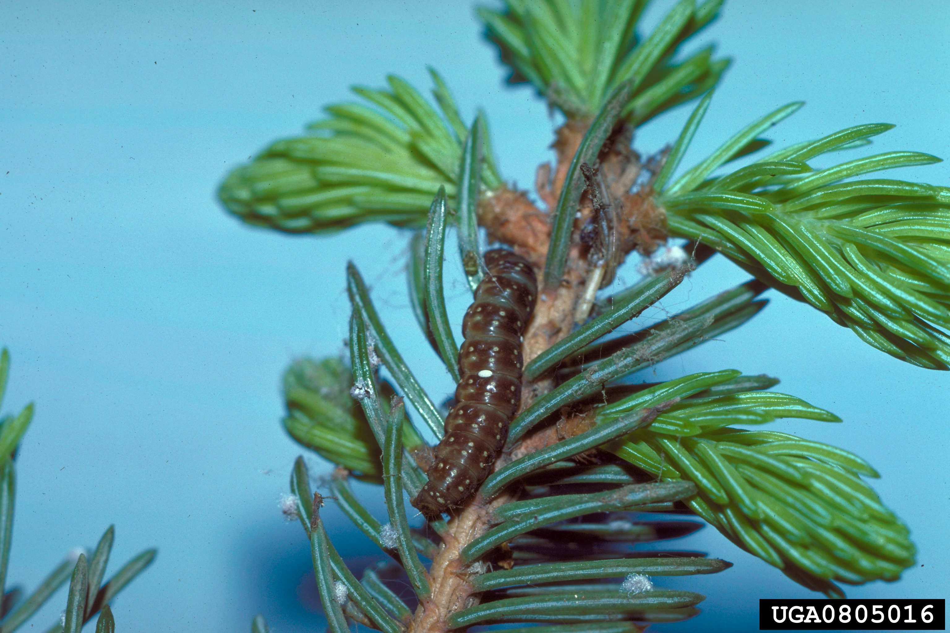 Choristoneura orae larva